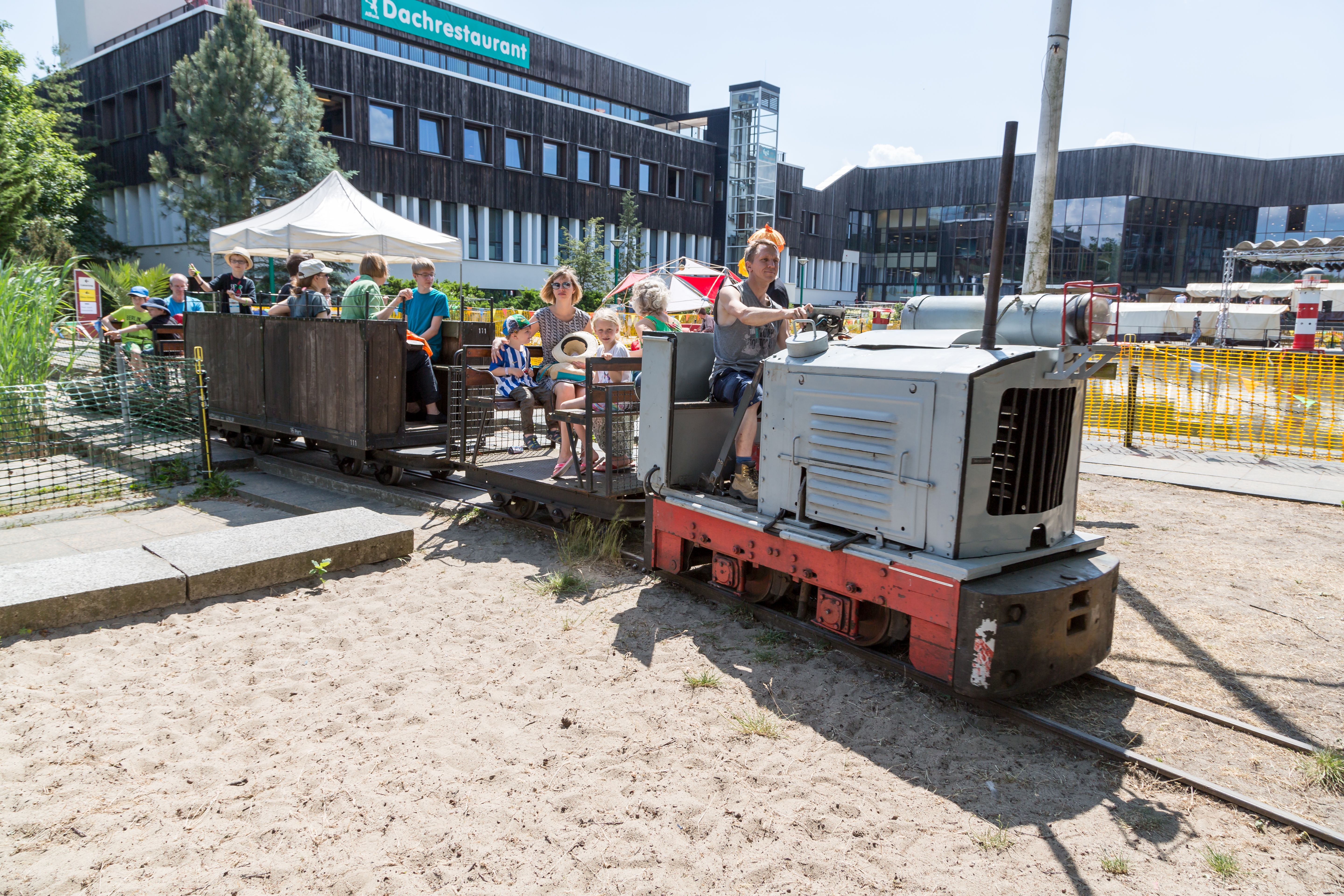 Maker Faire Berlin 2018, FEZ Wuhlheide